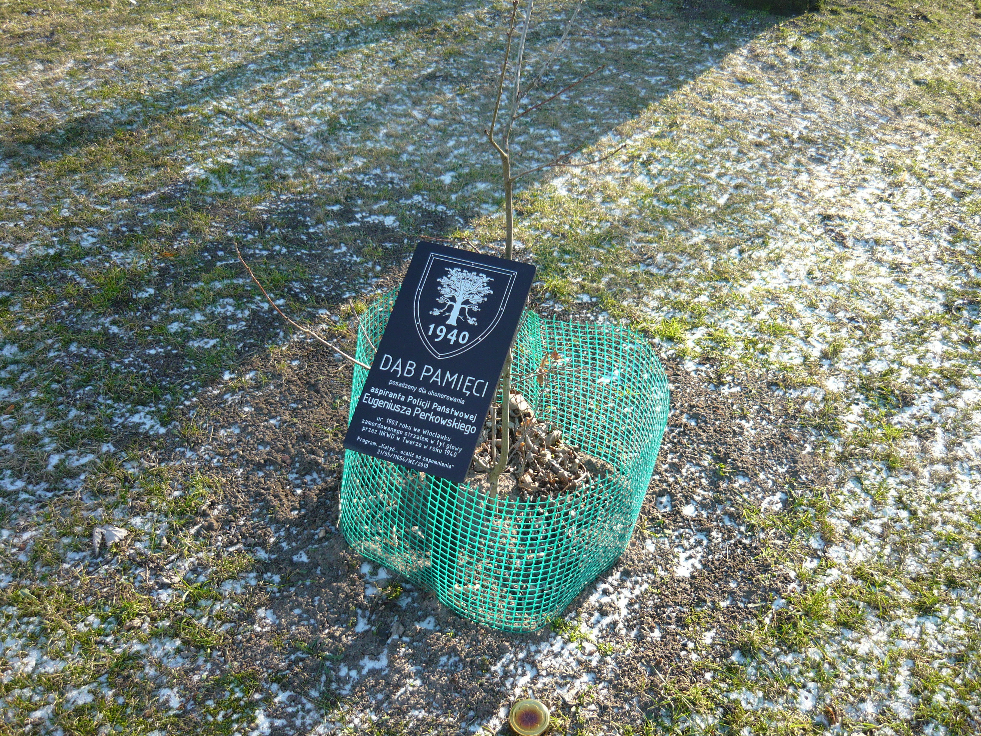 One of memorial trees near the Church of The Saintest Jesus in Włocławek, dedicated to Eugeniusz Perkowski.